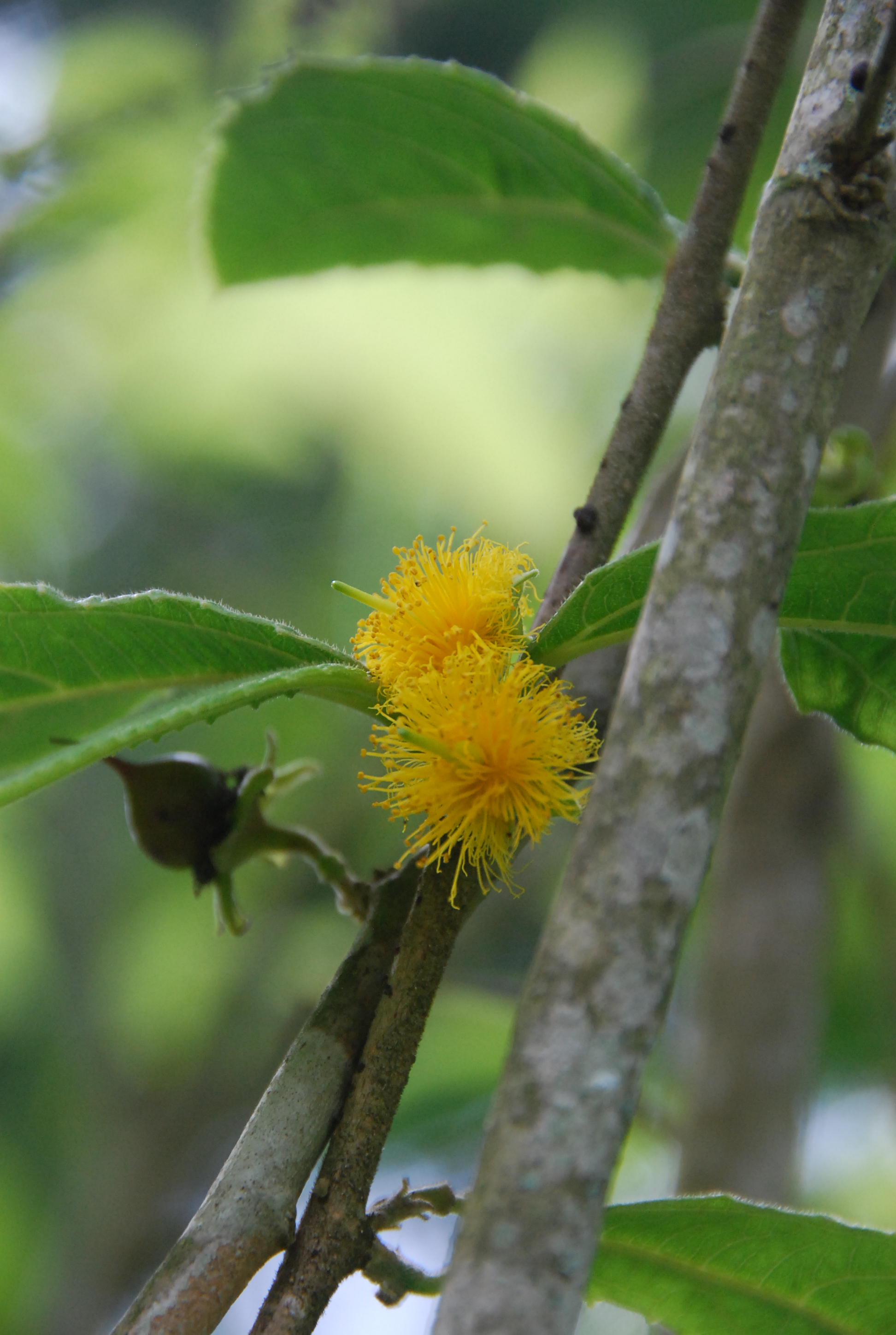 Banara vanderbiltii, Palo de Ramón This tree was planted at the Cambalache Forest, to collect seeds for propagation purposes. Photo by Carlos Pacheco, USFWS Location: Cambalache Forest, Arecibo, Puerto Rico